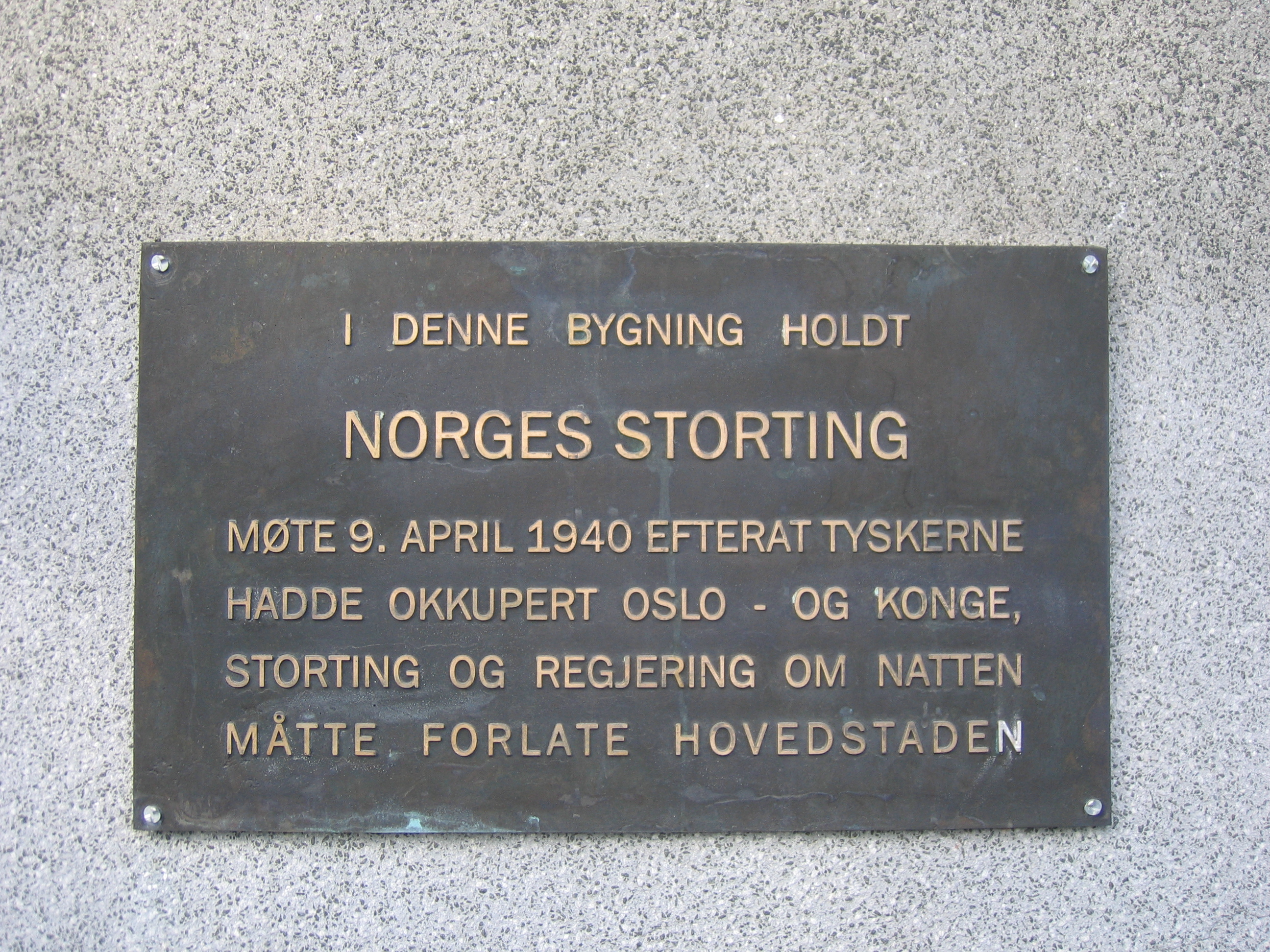 Historical sign Festiviteten in Hamar, Norway.